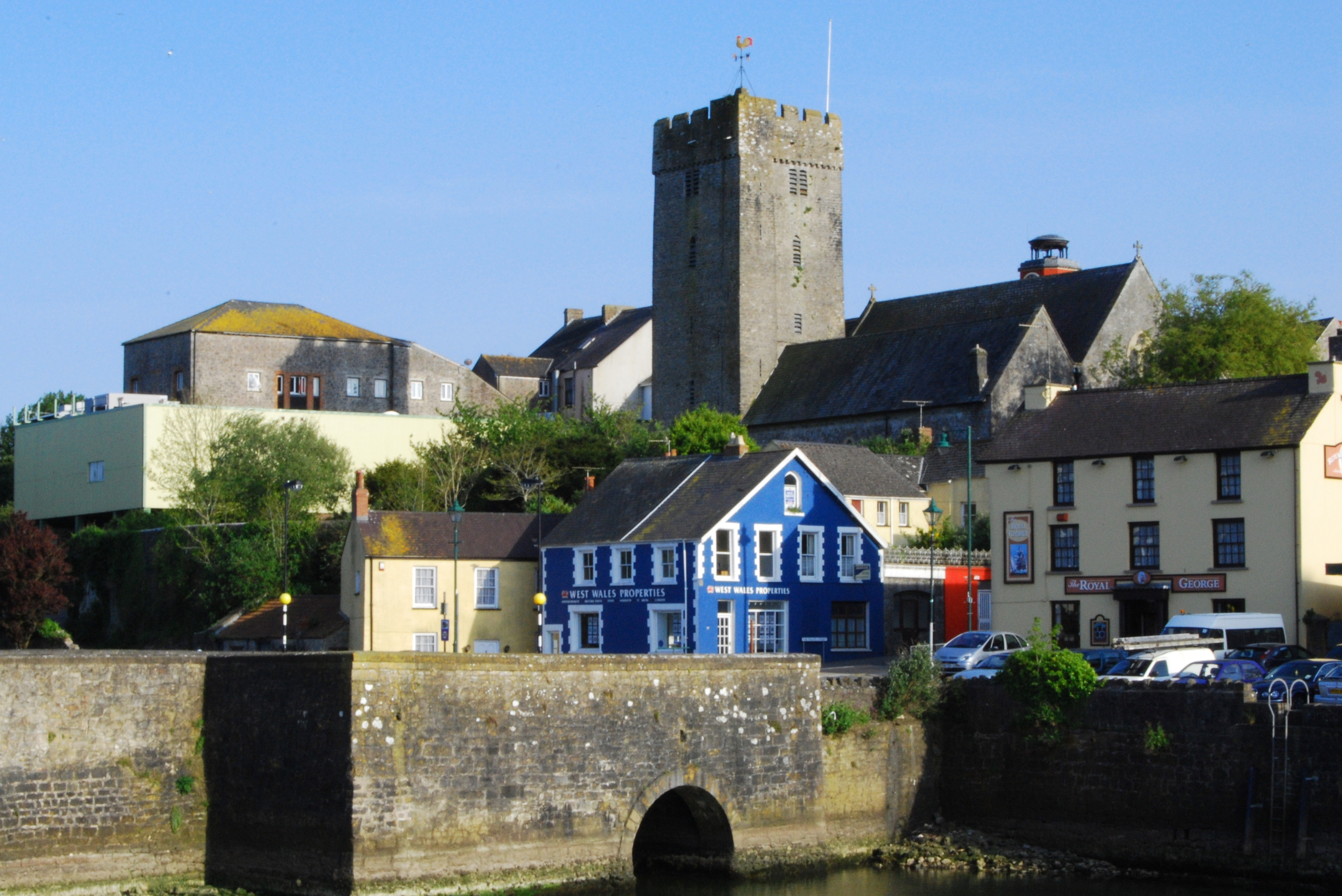 Town centre at Pembroke in Pembrokeshire